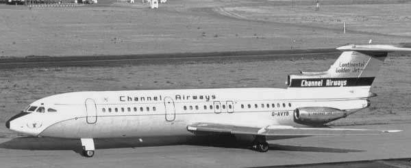 Hawker Siddeley Trident 2 Trident 1E, one of five used by Channel Airways